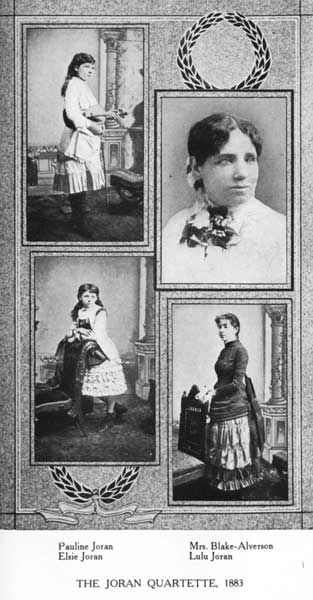 Photographs taken around 1884-85 depicting Lulu Joran, Pauline Joran, Elise Joran, and Margaret Blake-Alverson.